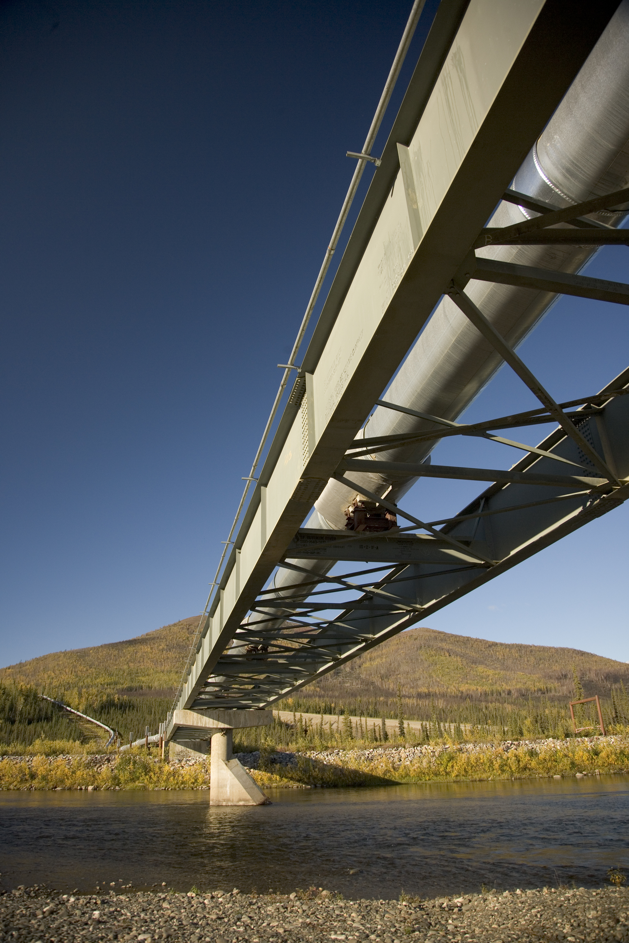 Trans Alaska oil pipeline crossing South fork Koyukuk River